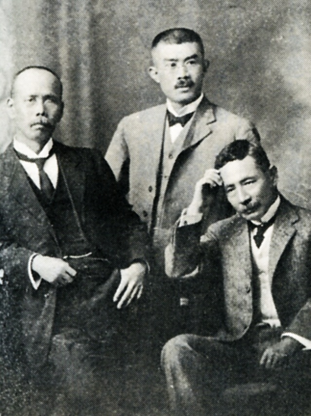 Natsume, Soseki (right) with Inuzuka, Nobutaro (center) and Nakamura, Yoshikoto (left)